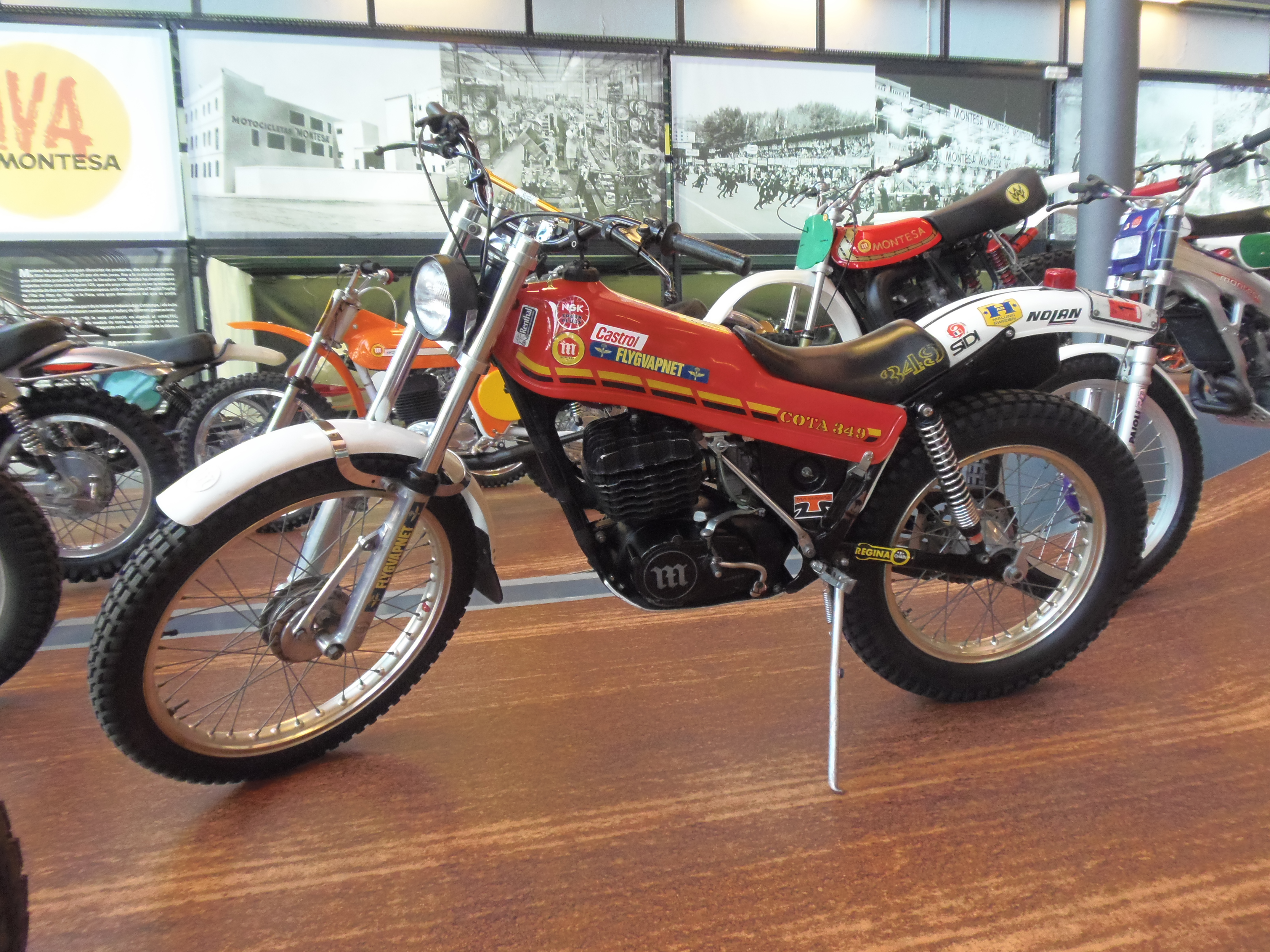 Ulf Karlson's 1980 Montesa Cota 349. Karlson won the 1980 World Championship on this bike